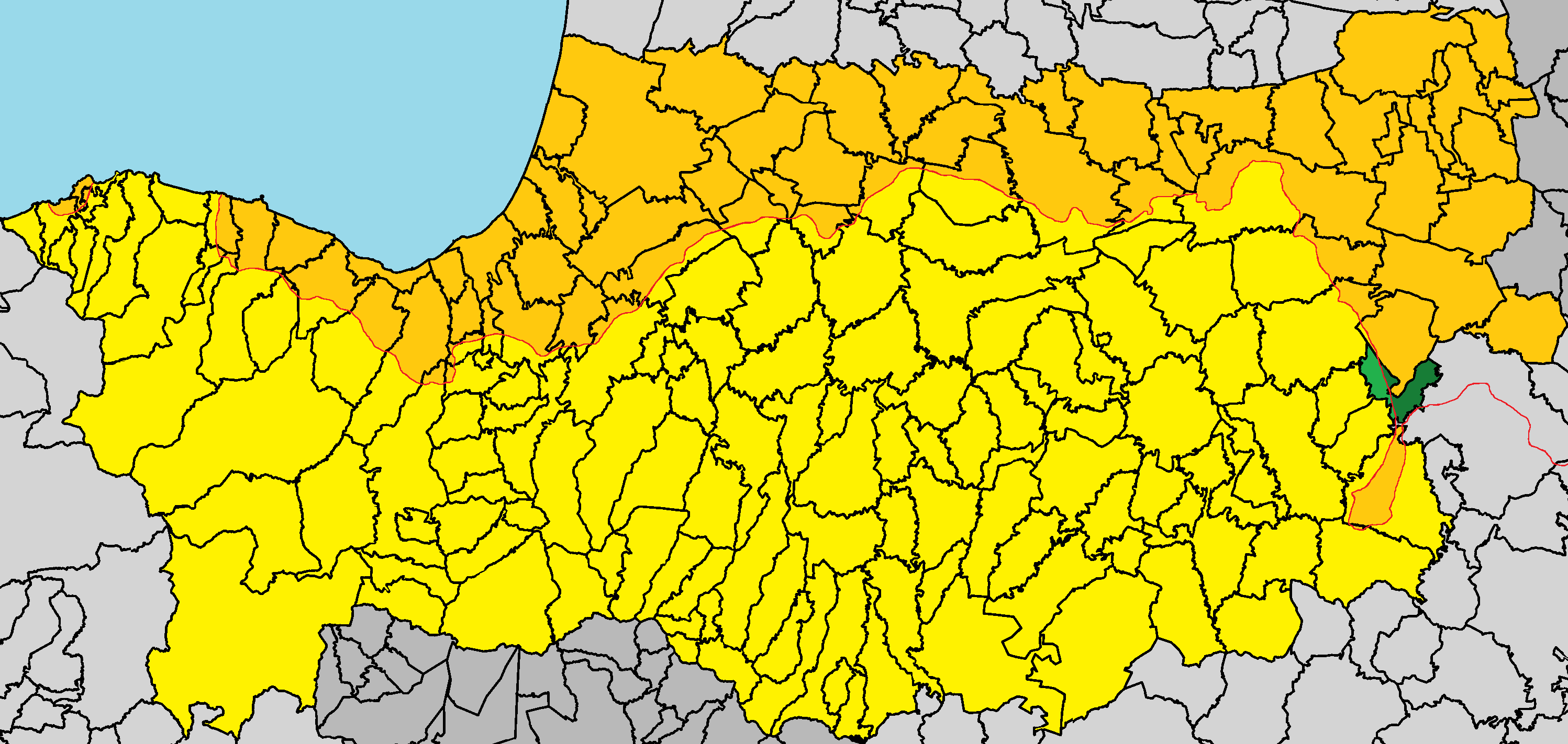 Pyrogi in Nicosia District (de jure).